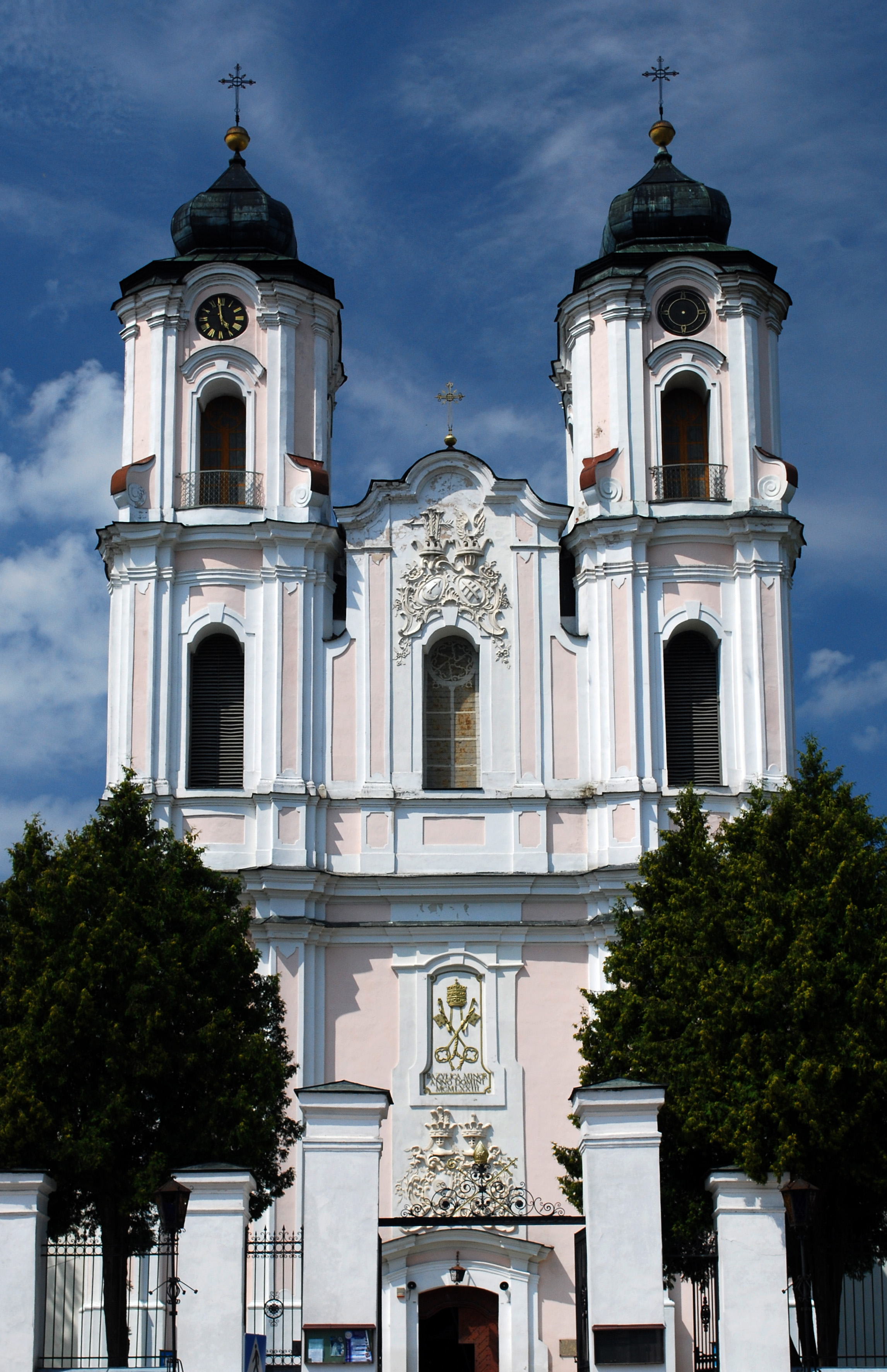 This photo from Podlaskie Voievodeship was taken during Polish Wikiexpedition 2009 set up by Wikimedia Polska Association. The making of this document was supported by Wikimedia Polska. Bazylika Nawiedzenia Najświętszej Maryi Panny w Sejnach - fasada od strony placu św. Agaty.